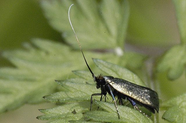 Picture taken in Commanster, Belgian High Ardennes . Please contact James Lindsey when you think this is a different taxon. James Lindsey, the copyright holder of this work, hereby publishes it under the following licenses: Attribution: James Lindsey at Ecology of Commanster